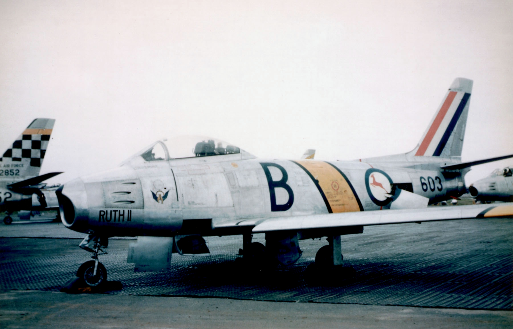 A South African Air Force North American F-86F Sabre from No. 2 Squadron at Tsuiki air base, Japan, in 1953. No. 2 Squadron SAAF was attached to the U.S. Air Force 18th Fighter-Bomber Wing during the Korean War. The unit lost 74 of 94 F-51D Mustangs and 4 out of the 22 Sabres, along with 34 pilots. In the background is the USAF F-86F-1-NA (s/n 51-2850) from the 39th Fighter Interceptor Squadron, 51st Fighter Interceptor Wing, which was shot down by a MiG-15 on 7 April 1953. The pilot, Harold Fischer, became a prisoner of war.